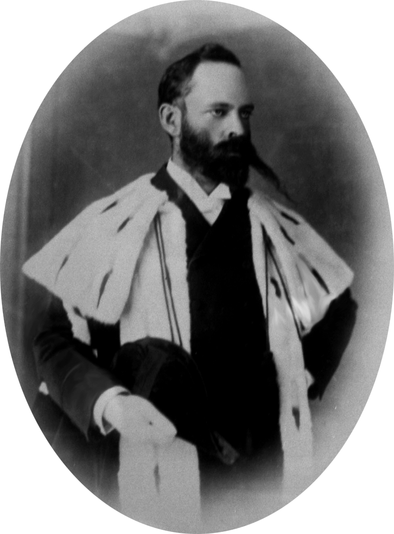 A photograph of Sir David Graaff, 1st Baronet taken between 1882-1897. The picture was originally taken in an oval format and the oval shape of this picture is meant to both reflect that and to cut out the empty white background in the corners.